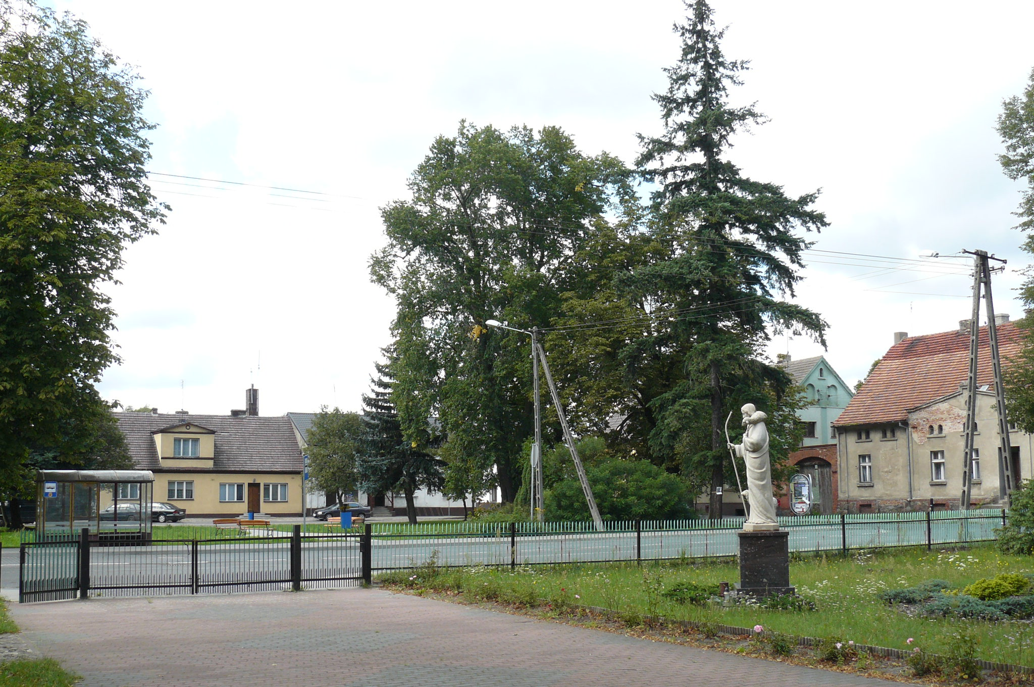 Boruja Koscielna, Koscielny Pleace. Center of village.